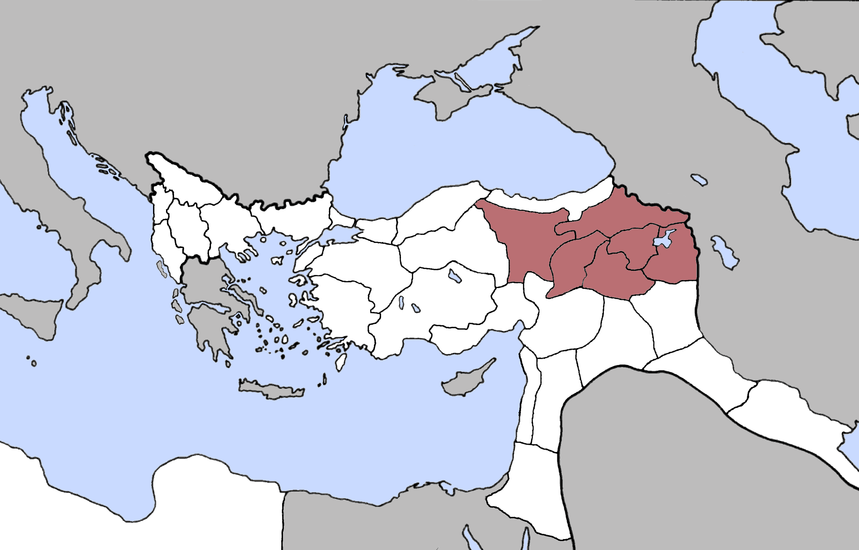 XY Vilayet, Ottoman Empire (1900). Source: An Economic and Social History of the Ottoman Empire, Volume 2 at Google Books By Suraiya Faroqhi, Bruce McGowan, Donald Quataert, Sevket Pamuk